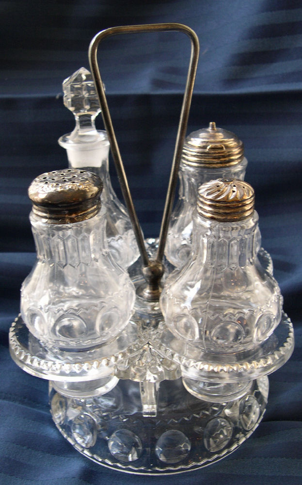 Vintage 4-Castor Molded Glass Condiment Set